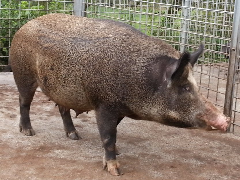 Hybrid between wild and domestic pig